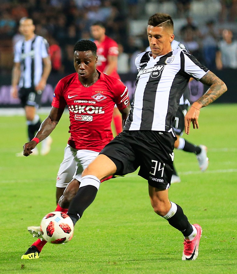 PAOK VS. Spartak Moscow 8 august 2018